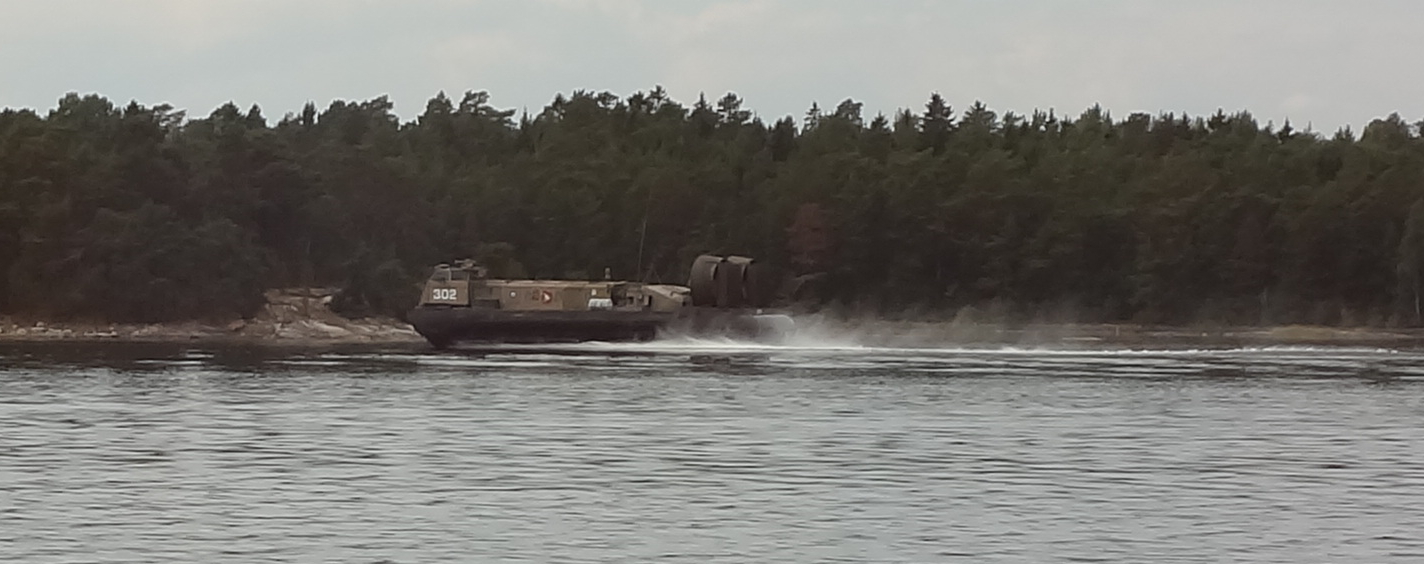 Griffon 2000TD in Sweden